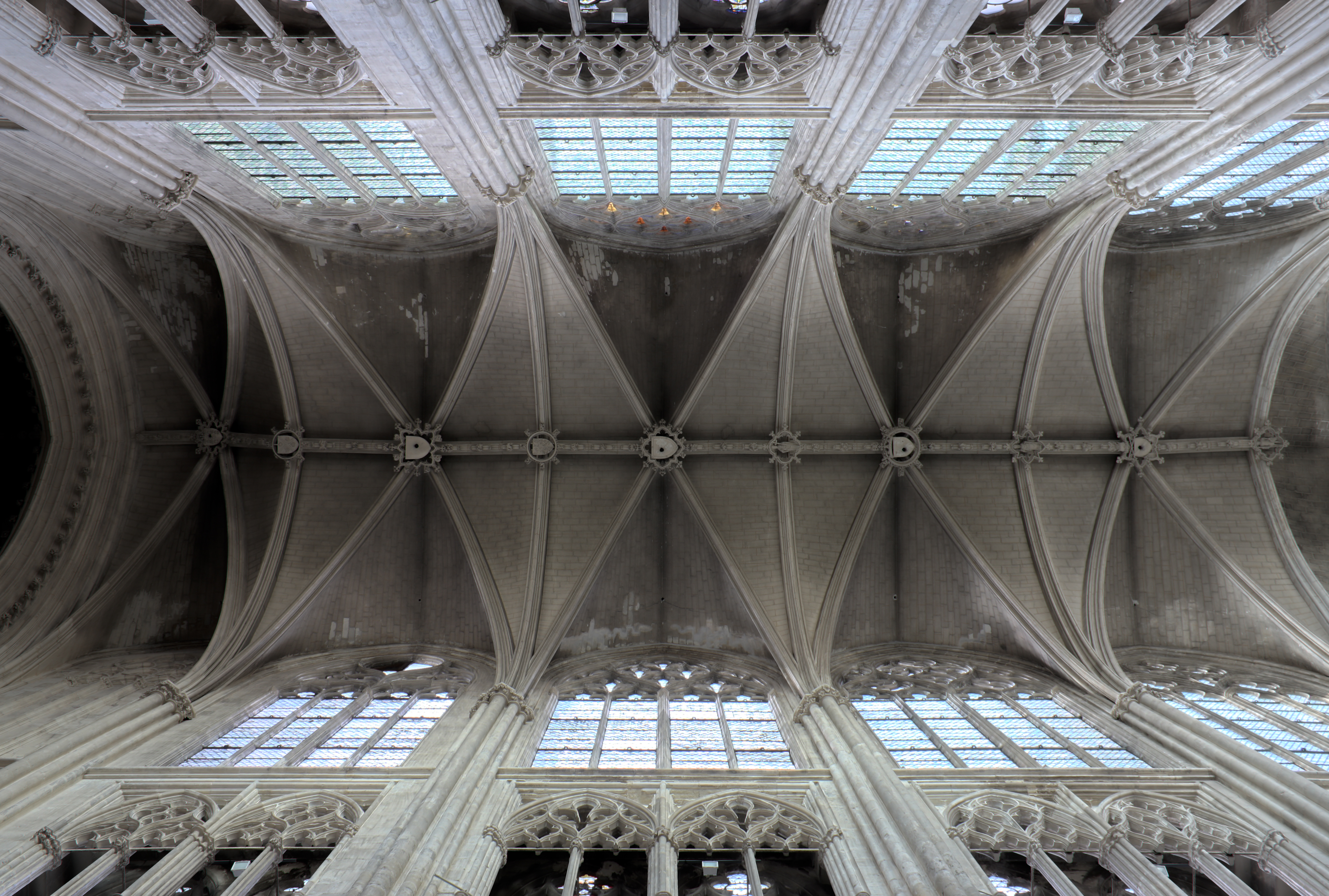 Vaults of the Cathedral Saint-Gatien in Tours.